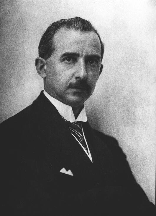 İsmet İnönü in 1920s.